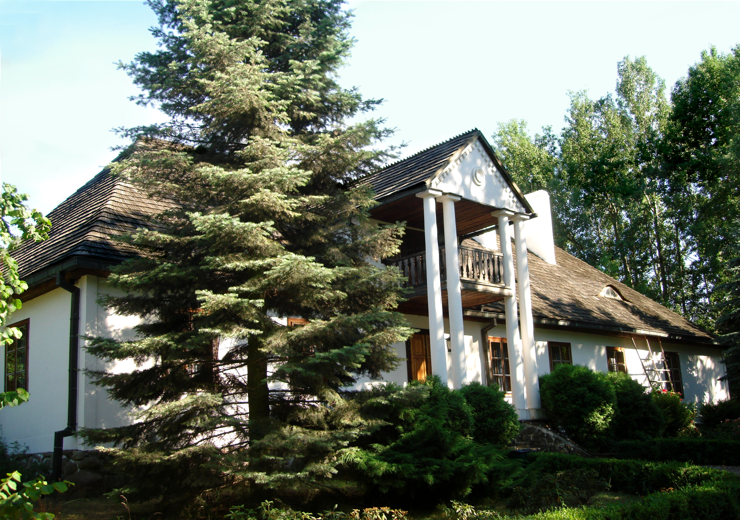 Open Air Village Museum in Radom